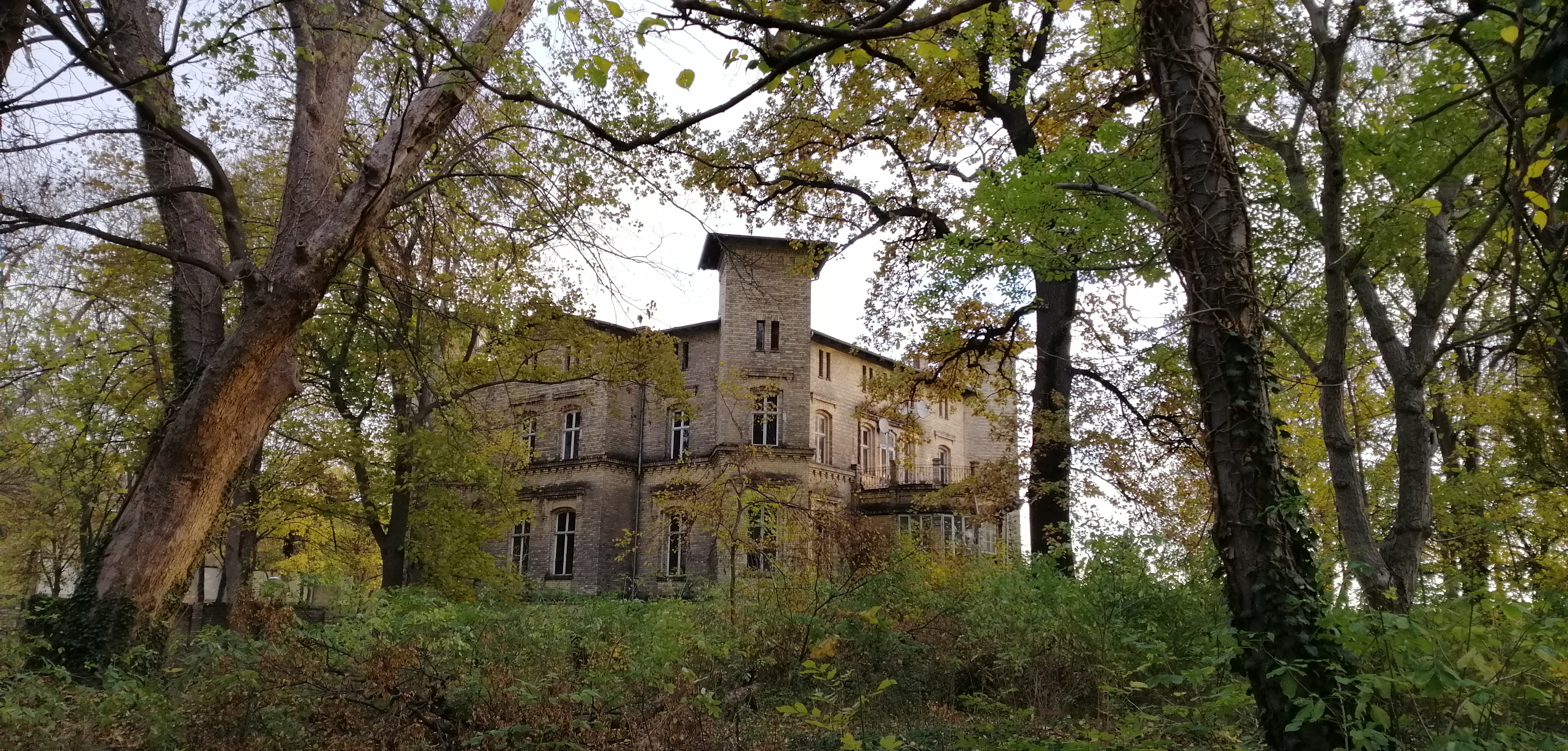 Gutshaus Kraaz aus dem Park Fotografiert.Blick auf die Rückseite des Hauses mit Wintergarten. 2018